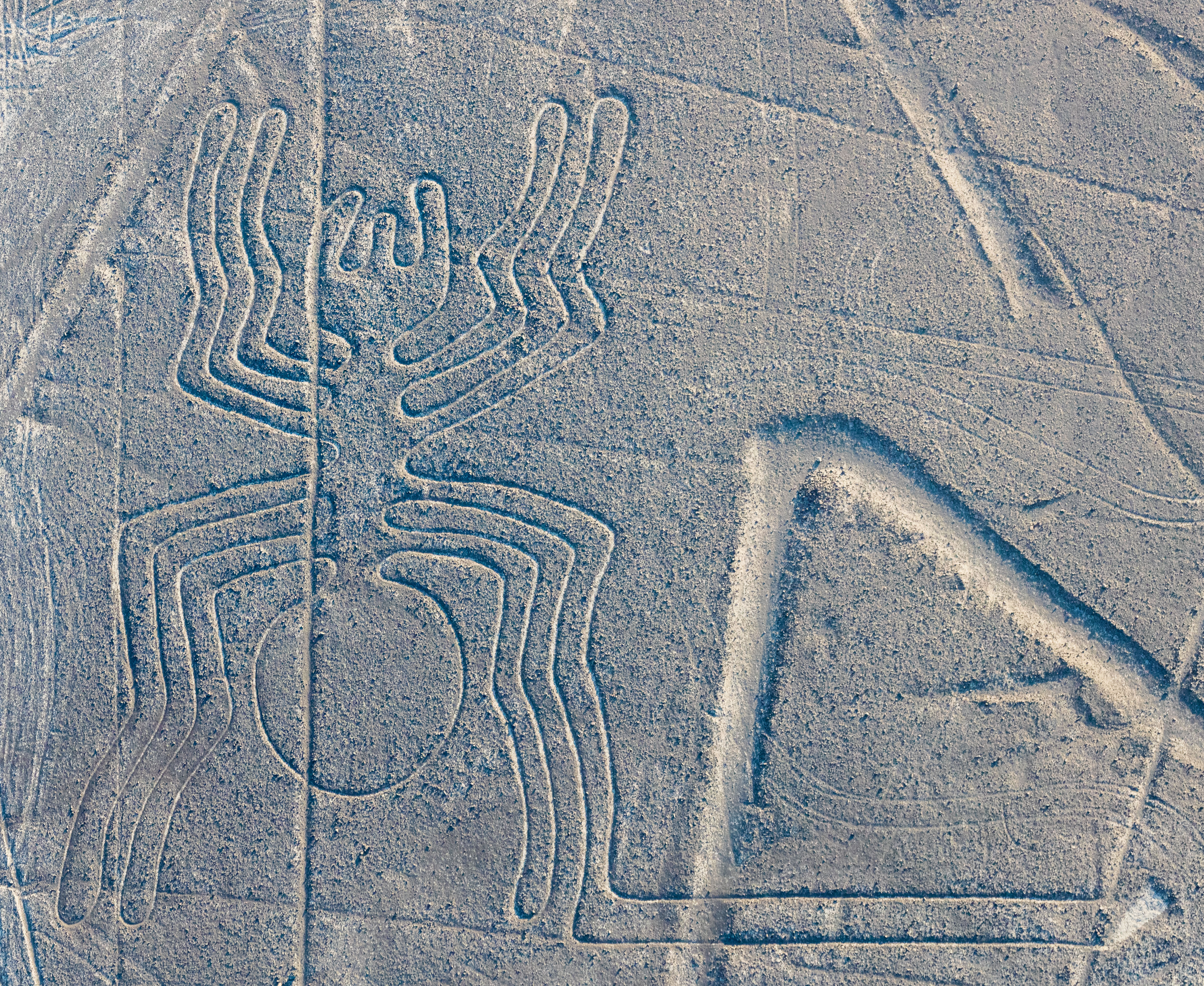 Aerial view of the "Spider", one of the most popular geoglyphs of the Nazca Lines, which are located in the Nazca Desert in southern Peru. The geoglyphs of this UNESCO World Heritage Site (since 1994) are spread over a 80 km (50 mi) plateau between the towns of Nazca and Palpa and are, according to some studies, between 500 B.C. and 500 A.D. old. This place is a UNESCO World Heritage Site, listed as Nazca Lines.